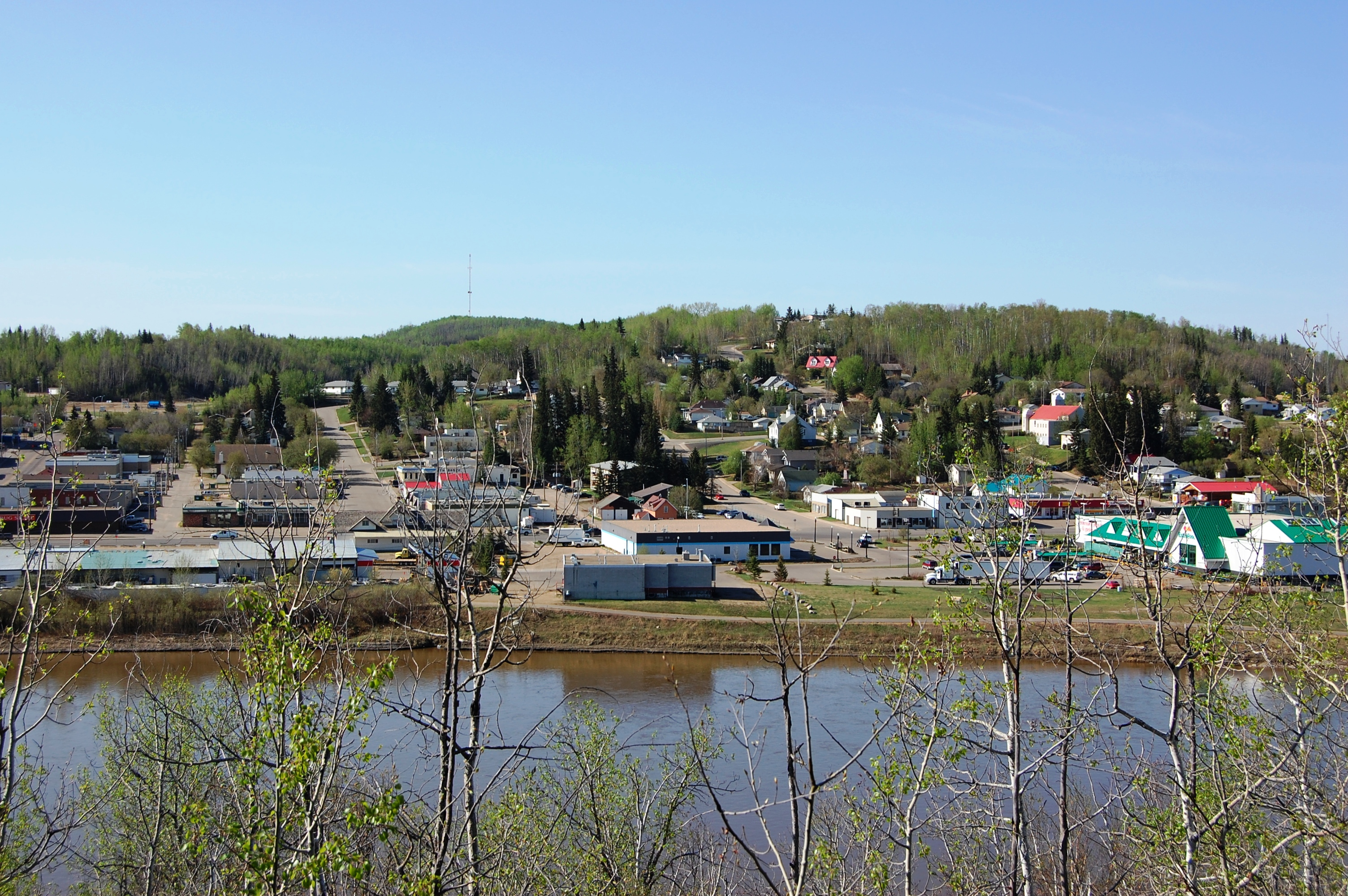 Photograph of Athabasca, Alberta from north side of Athabasca River.